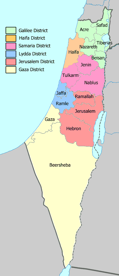 Districts and Sub-Districts of Palestine according to the Administrative Divisions (Amendment) Proclamation of 1945.